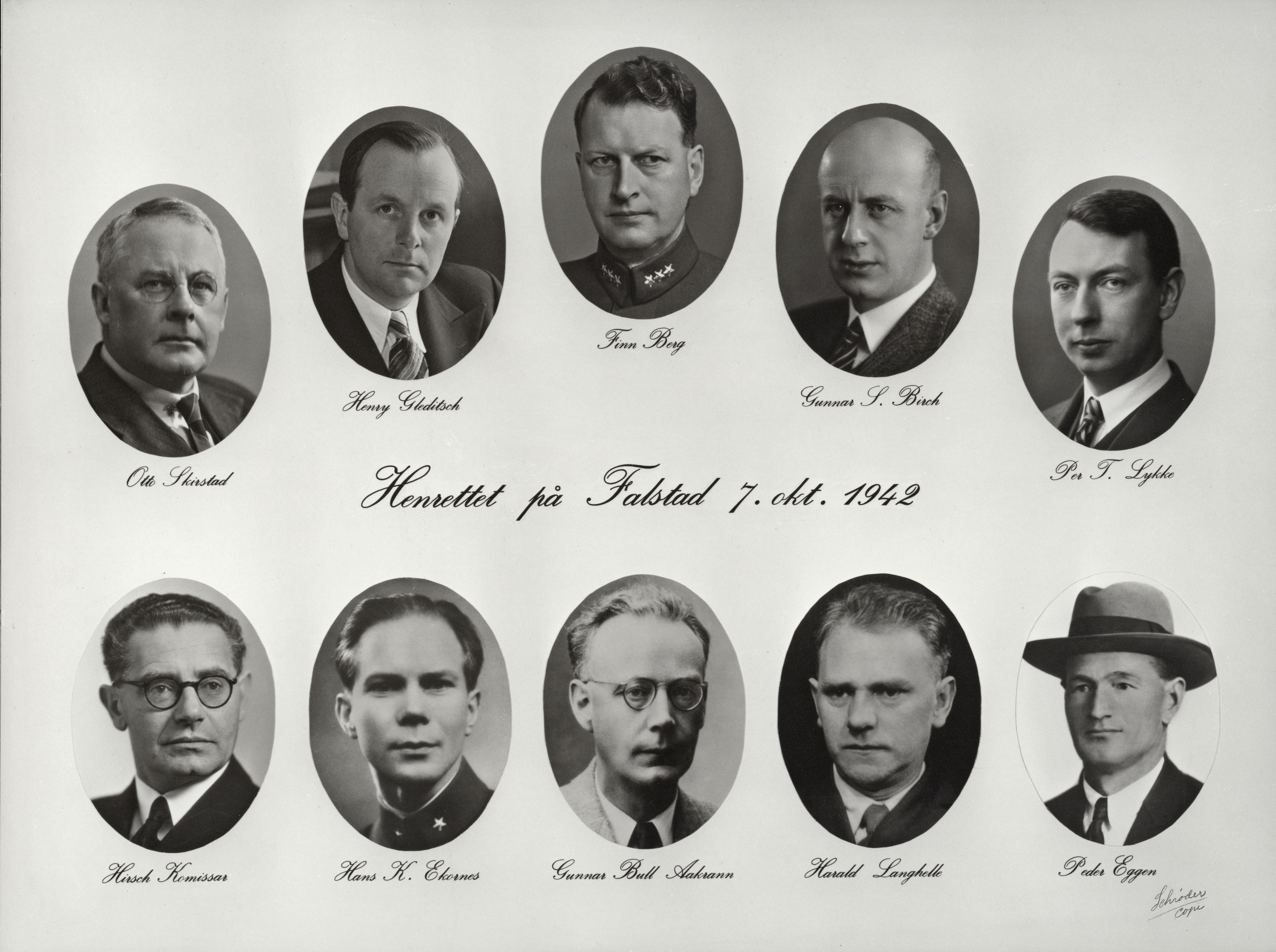 Format: Fotopositiv (Fotomontasje) Dato / Date: Montasje ukjent, portretter før 1942 Fotograf / Photographer: Ukjent, kopi gjort av Schrøder Sted / Place: Trondheim Wikipedia: Martial law in Trondheim in 1942 Eier / Owner Institution: Trondheim byarkiv, The Municipal Archives of Trondheim Arkivreferanse / Archive reference: Tor.H45.L.F9389